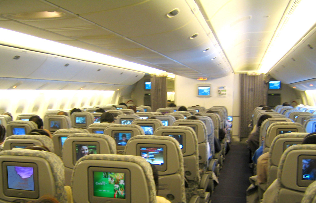 EVA Air 777 cabin